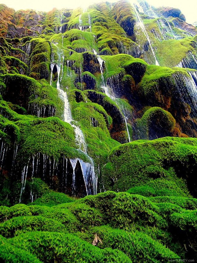 Güney Waterfalls near Güney in Denizli Province, Turkey